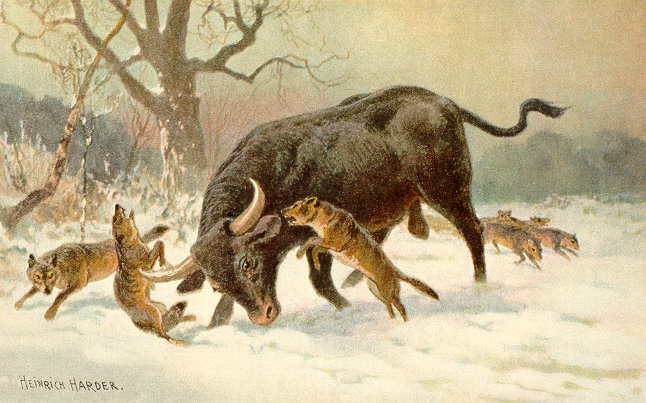 Long Horned European Wild Ox (aurochs)